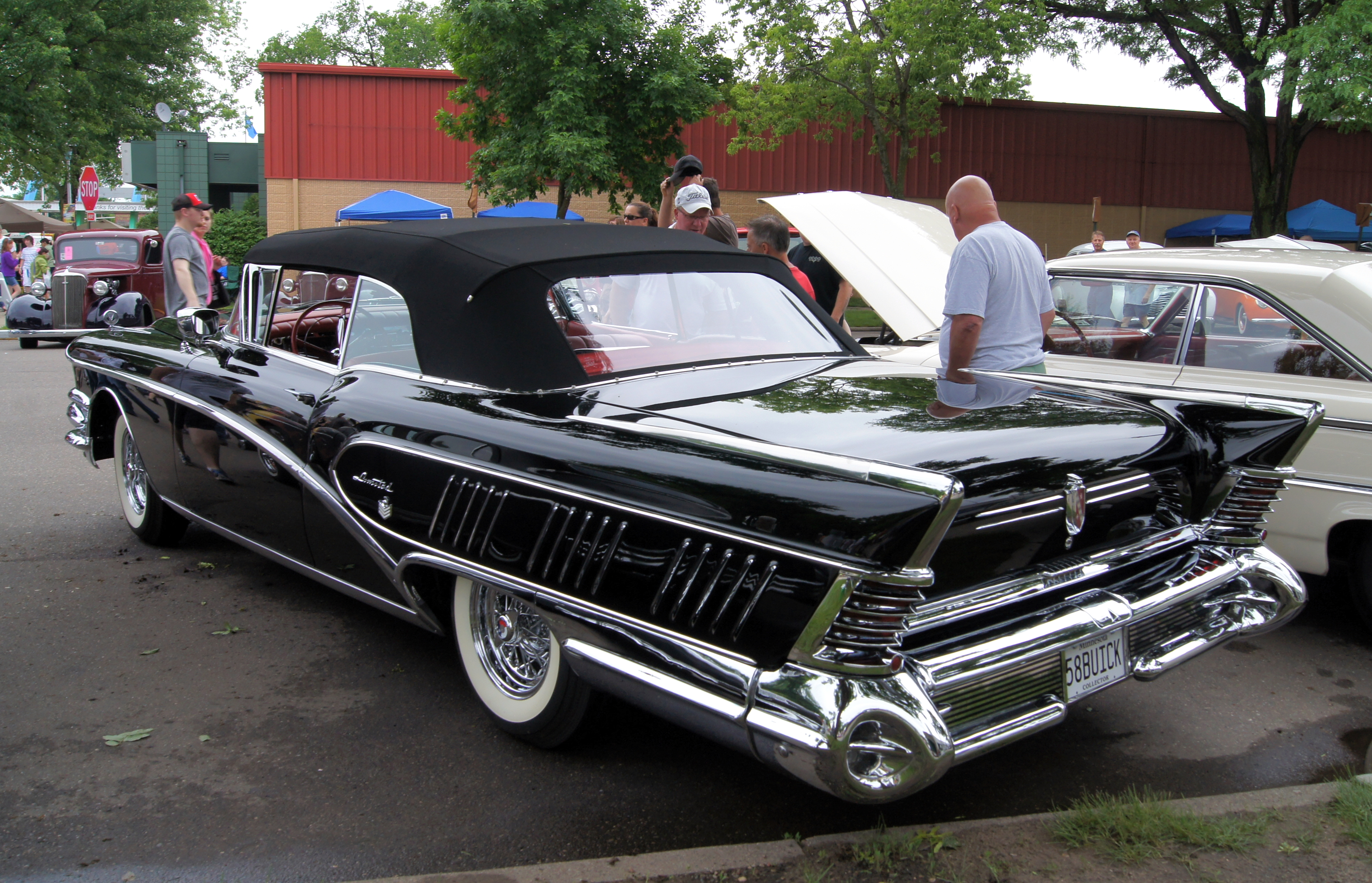 MSRA “BACK TO THE 50′s” 40th ANNIVERSARY June 21-23, 2013 State Fairgrounds St. Paul Minnesota More Car Pictures